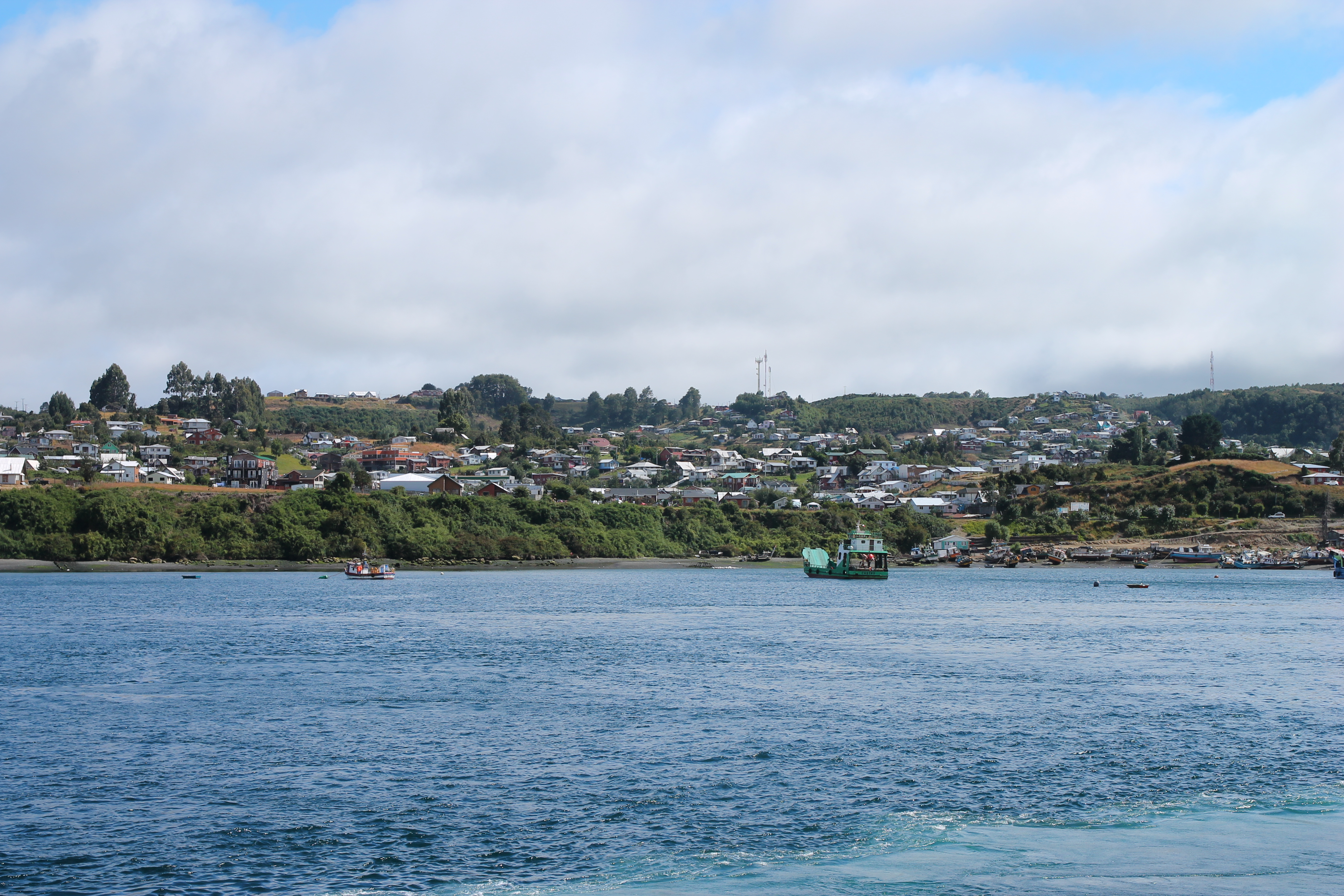 Dalcahue